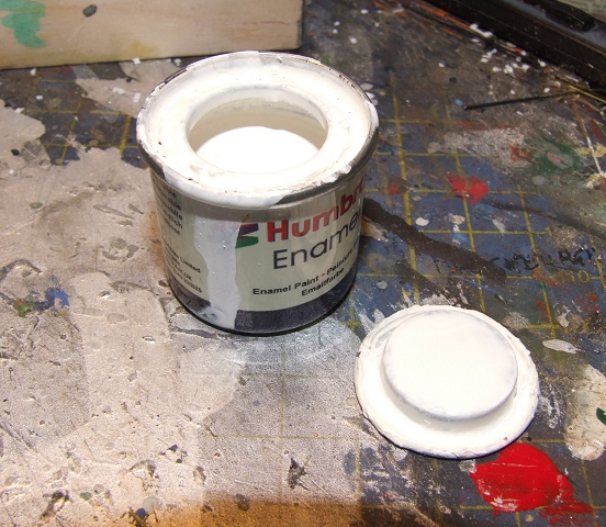 Tin of white paint of Humbrol